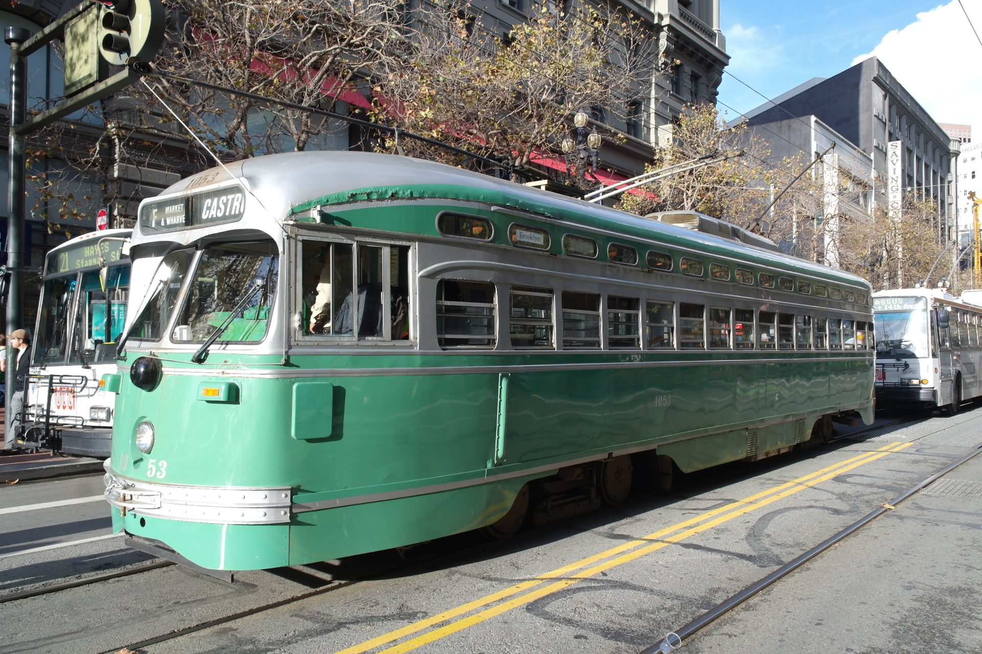 Two trolley poles on roof of the PCC streetcar, outbound at Powell Street